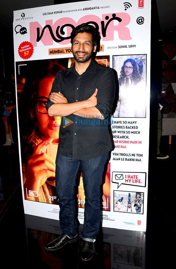 Standup comedian Kanan Gill at the trailer launch of his film Noor